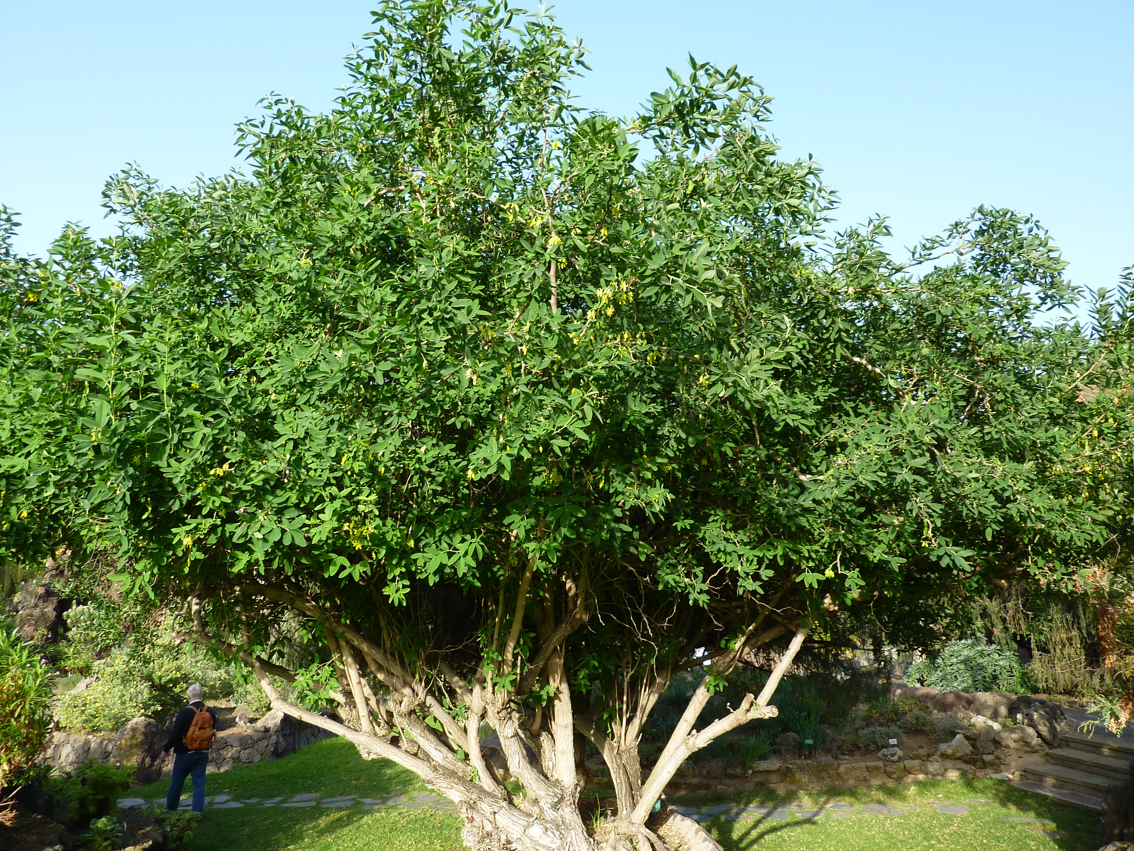 Anagyris latifolia in the Jardín Botánico Canario Viera y Clavijo.